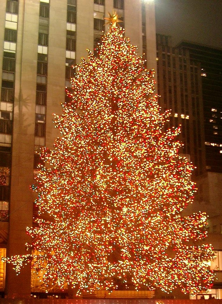 Uploaded from : Das Rockefeller Center in New York City zur Weihnachtszeit Eigene Aufnahme Lechhansl 15:53, 20. Jan. 2007 (CET) Dezember 2003